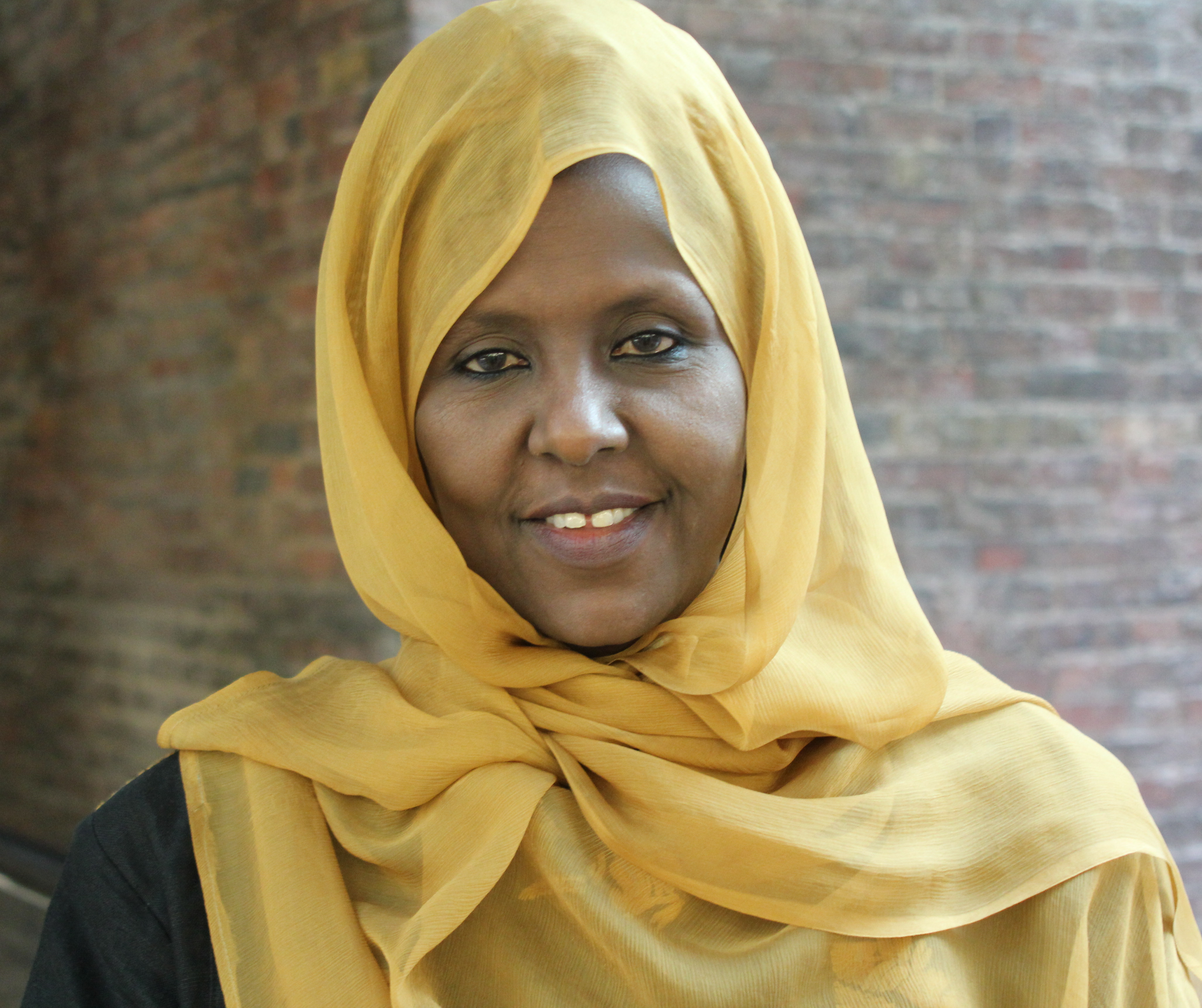 Asha Haji Elmi pictured in 2013.